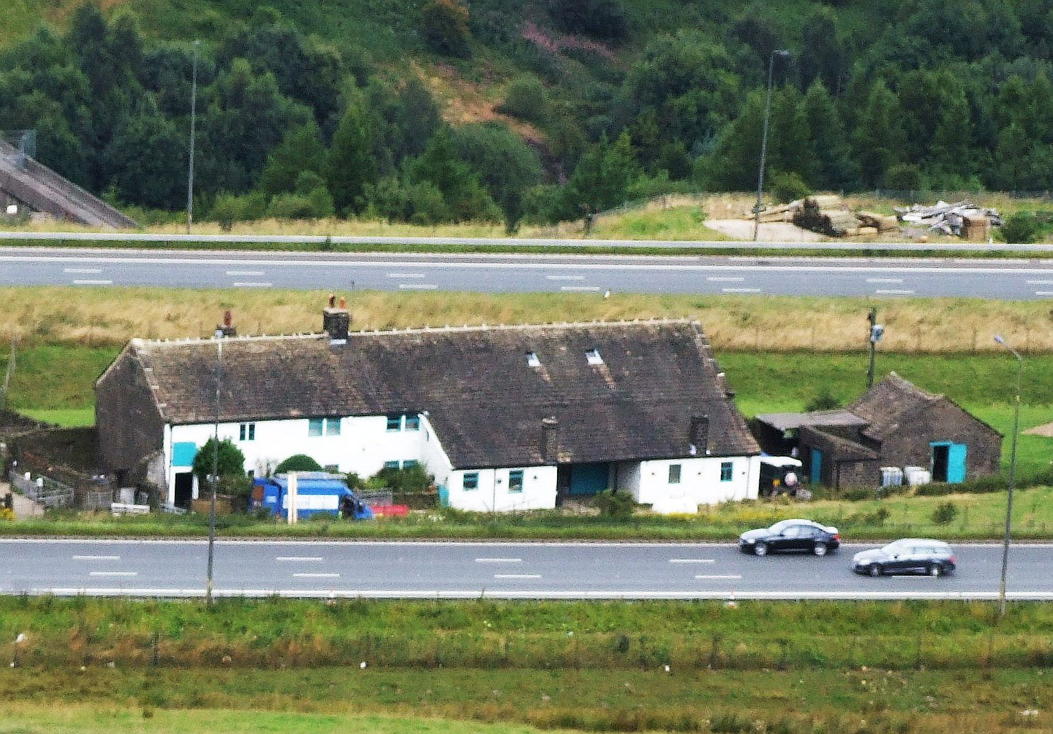 Crop of File:Stott Hall Farm (RLH) 2009-08-13.JPG